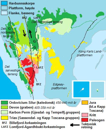 Geological map of the Svalbard islands. G = Granite provinces of the Silurian.